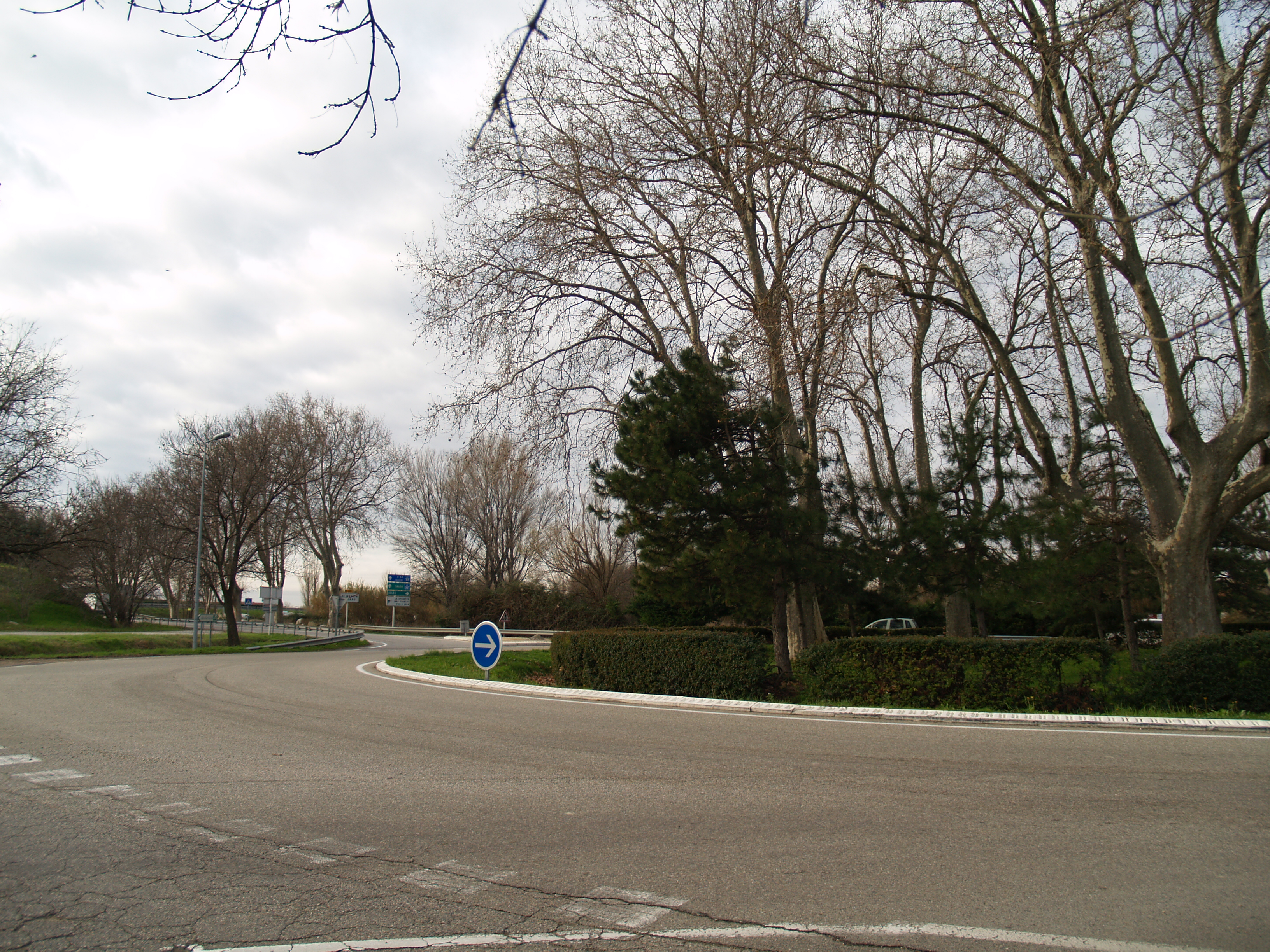 Entrance of Saint-Martin de Crau from the south.